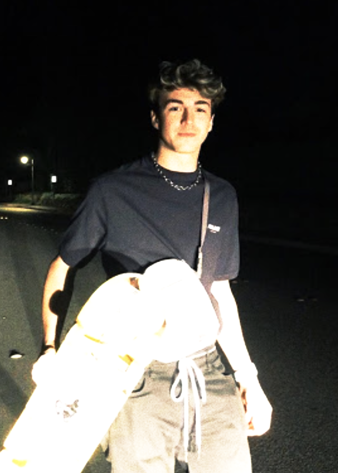 It is Powell Adderley. His nickname is Surf Mesa.